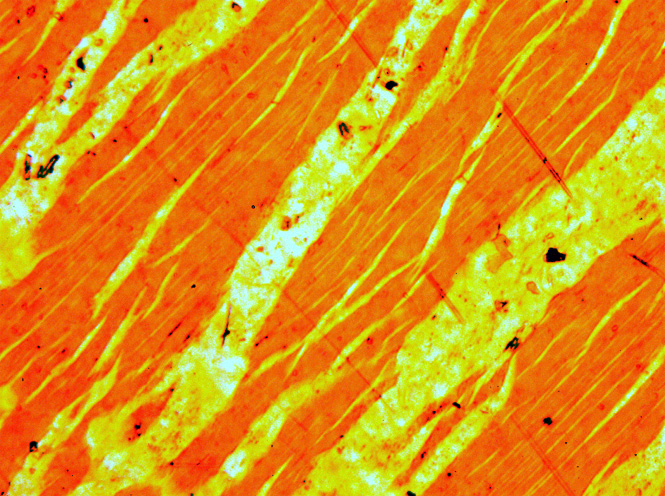 Perthite. Image taken of grain in thin section with a polarizing microscope and with a first order red compensator in the light path. Long dimension of image is 0.4 mm. The K-feldspar host appears orange, and albite exsolution lamellae appear yellow.